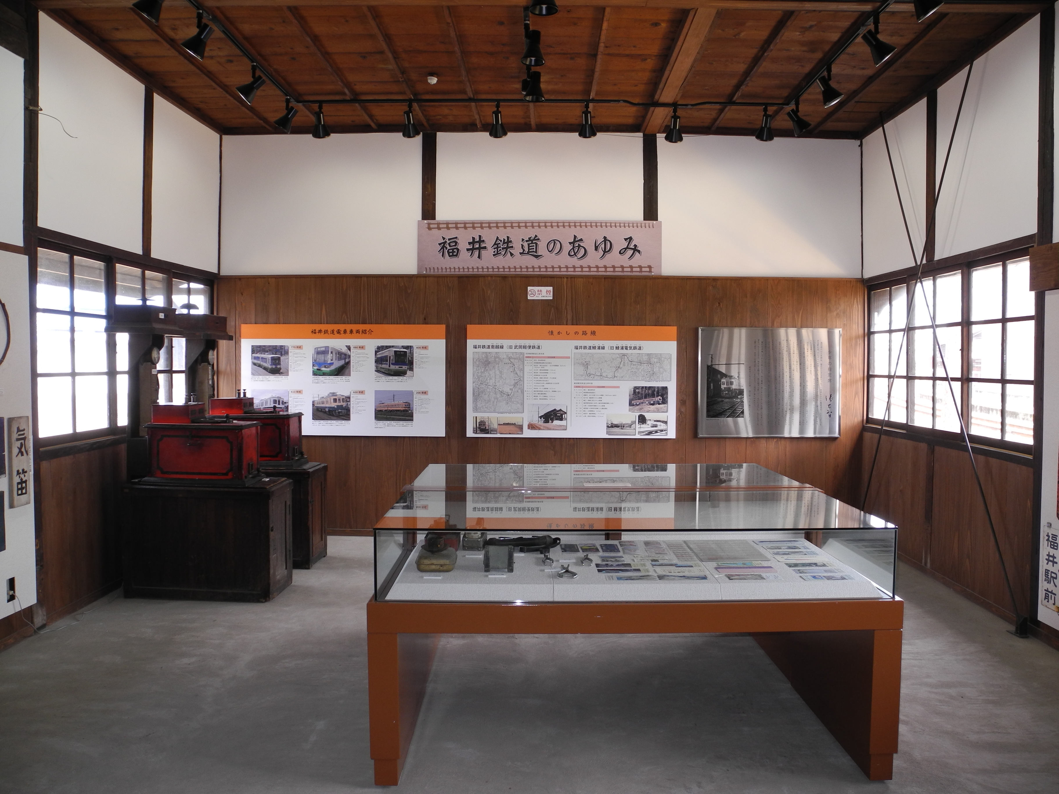 Fukui Railway Kitago St.